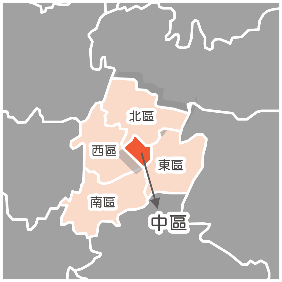 Zhong District